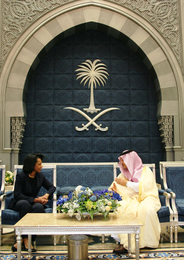 Condoleezza Rice and Saud al-Faisal.